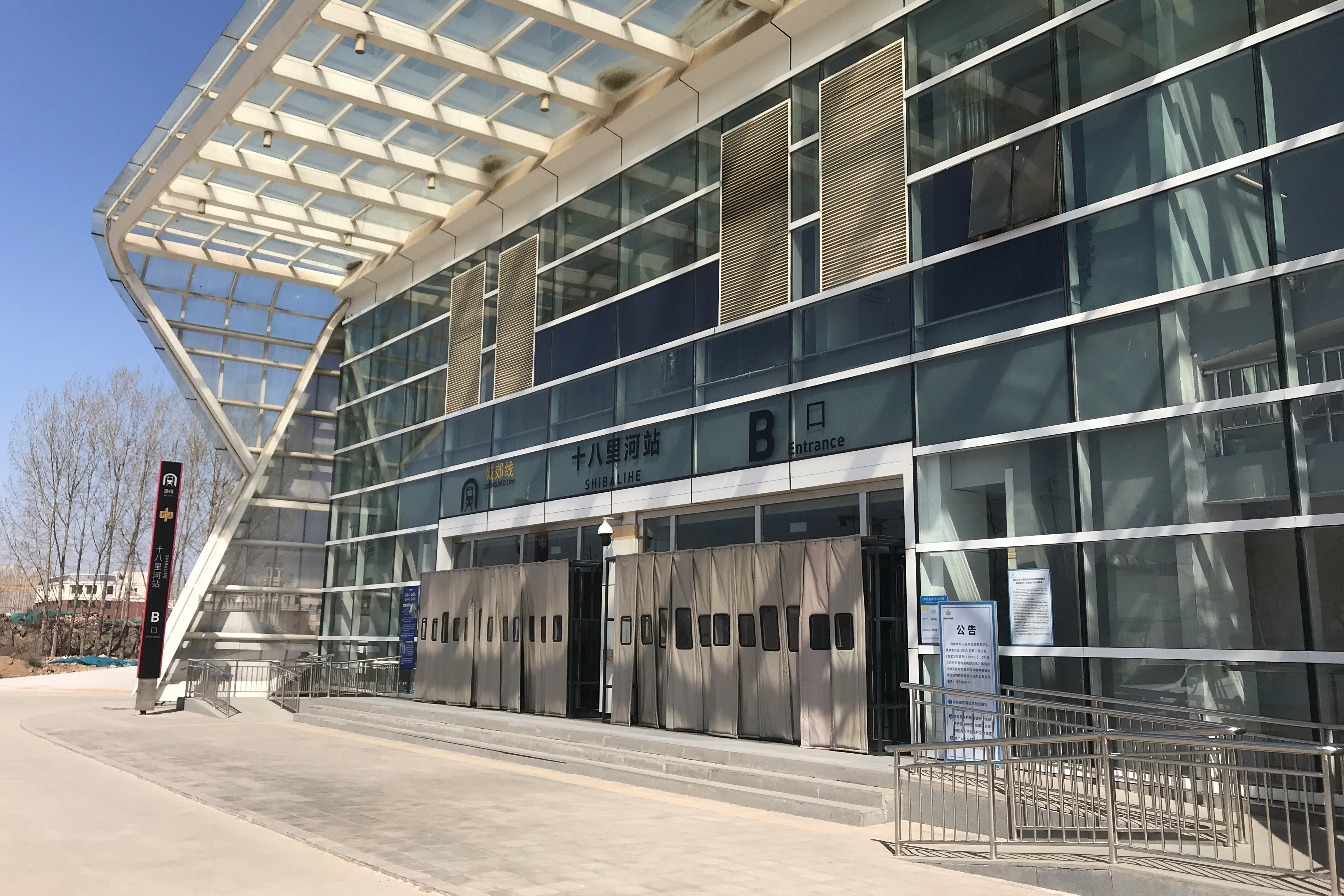 Exit B of Shibalihe Station